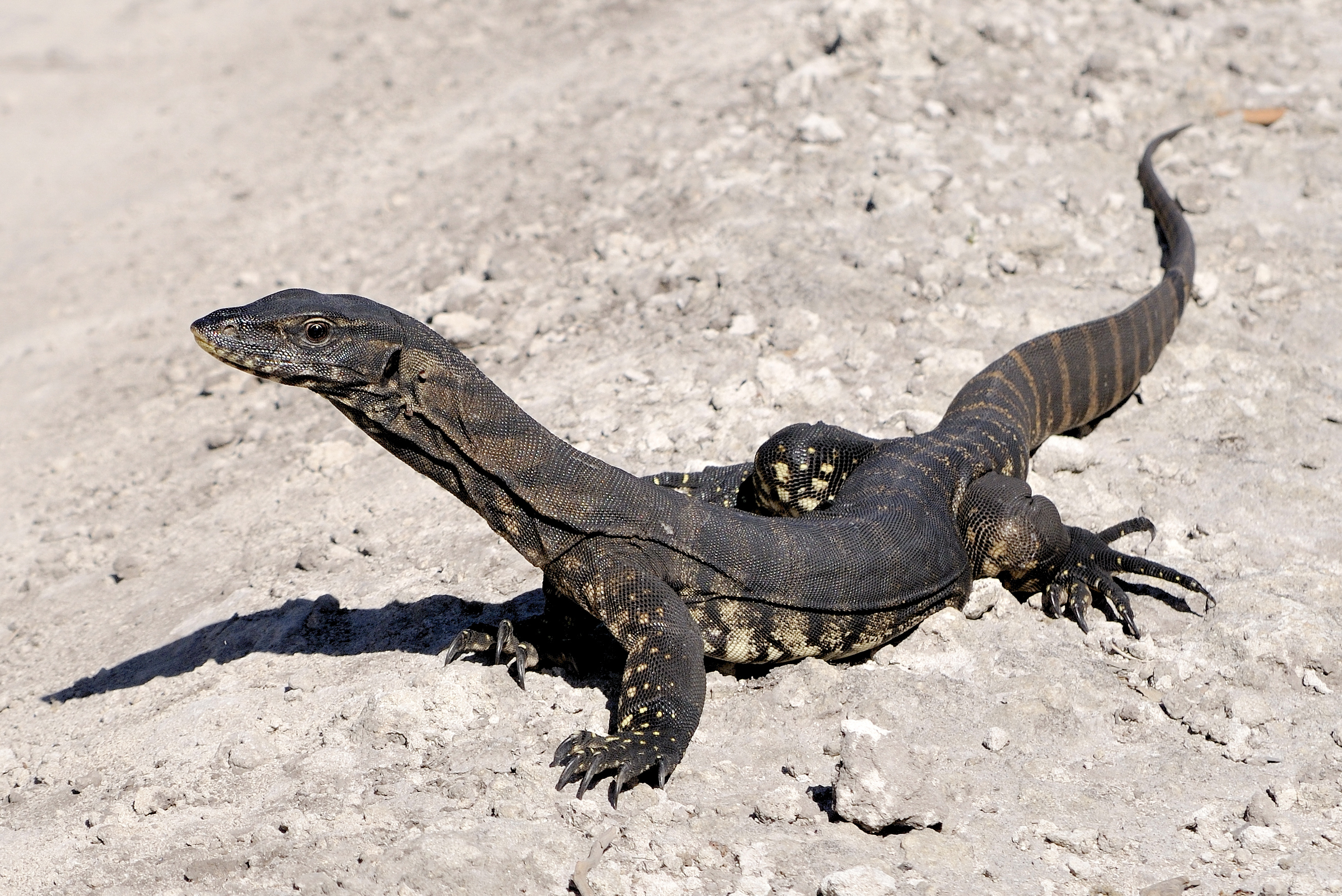 Goanna photographed on a limestone track near Boranup Beach Western Australia. The goannas of this region are grey (which is consistent with soil/sand colours) as compared to the pale brown tones of Central Australia and other red soil areas of Australia.